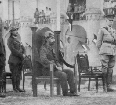 Photo Post_Card of the Coronation of Emir (Prince) Faisal I as King of Iraq on 23 of August 1921. Emir Faisal has already served as King of Syria from March to July. The event was conducted,at six A.M., in the court-yard of the Ottoman built Serai, his temporary headquarters upon arriving in Baghdad. On the extreme Lt is Sir Percy Cox, the British High-Commissioner, and to his Lt. is Kinahan Cornwallis, King Faisal is seated, and to his Lt. is Sir Aylmer Haldane, the British Commanding Officer. Behind the King is his ADC Tahsin Qadri and to extreme Lt. is Sayied Hussein Afnan, Secretary of the Council of Ministers. Sir Percy Cox proclaimed that 99% of the Iraqis have voted for the new King's accession to the throne.